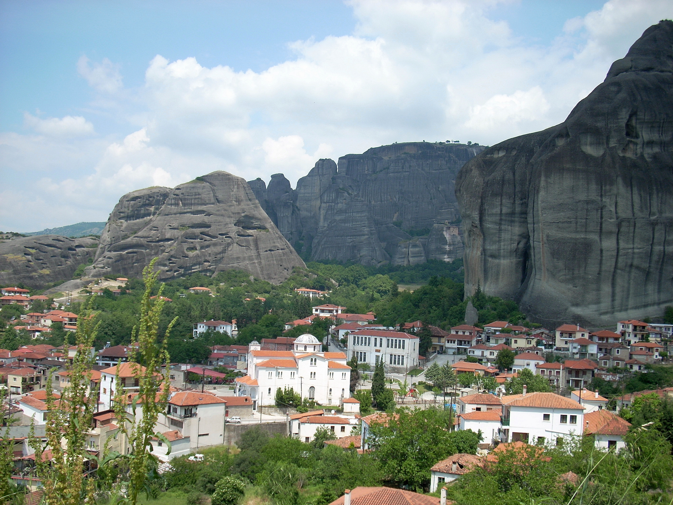 Meteora with view over Kastraki